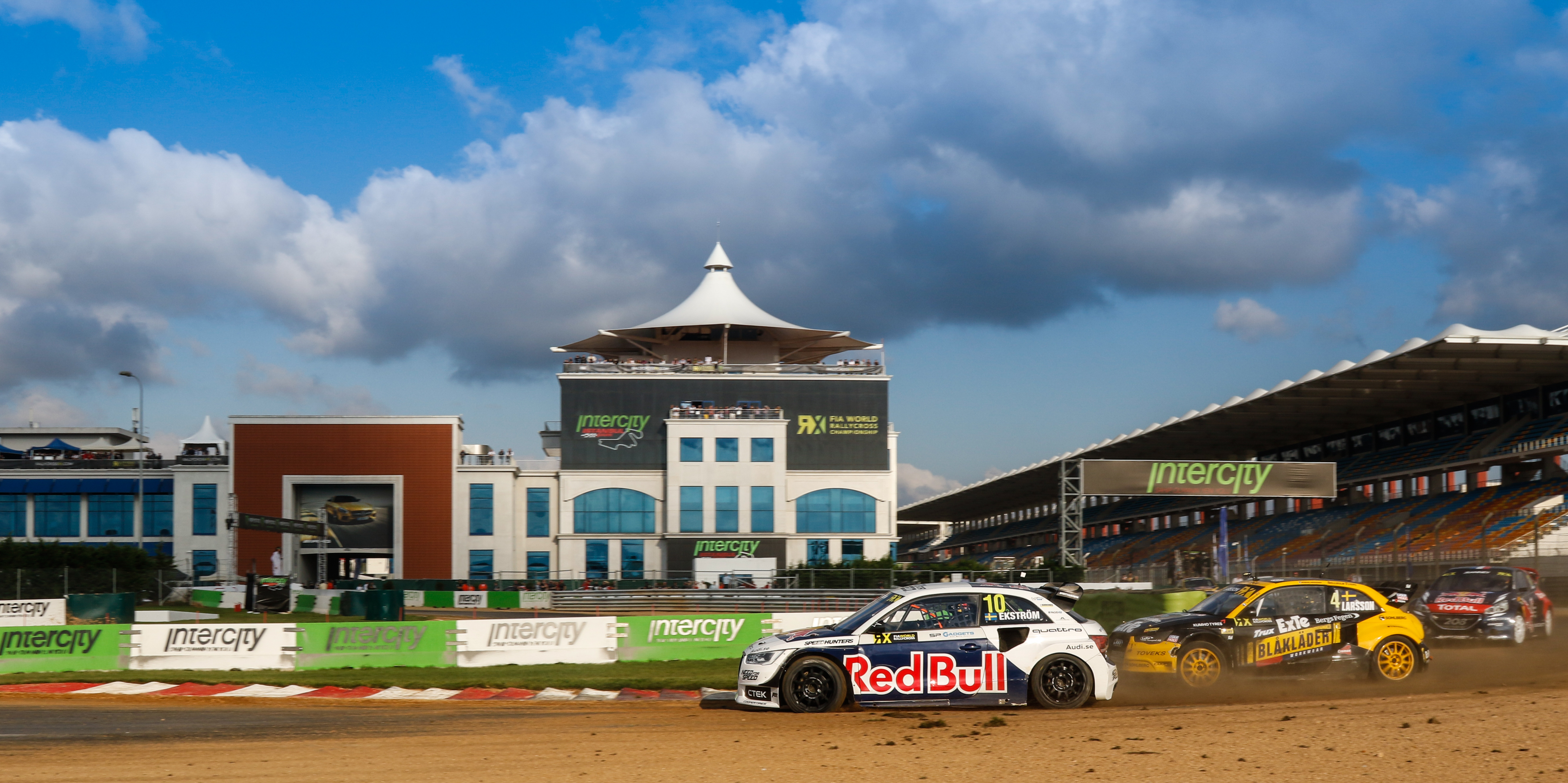 2015 FIA World Rallycross Championship // Round 11 // Istanbul, Turkey // 2-4 October 2015 // Worldwide Copyright: EKS/McKlein